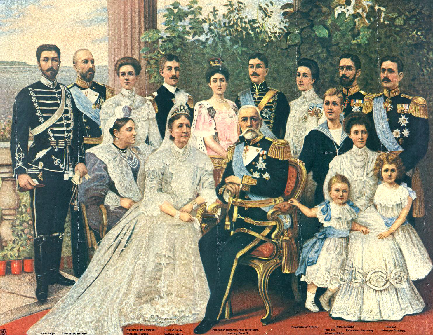 King Oscar II of Sweden (1829-1907) and family, from left: Prince Eugen, Prince Oscar and Princess Ebba Bernadotte, Princess Teresia, Prince Wilhelm, Queen Sofia, Princess Margareta, King Oscar, Prince Gustaf Adolf, Crown Princess Viktoria, Prince Erik, Crown Prince Gustaf, Princess Ingeborg with daughters Märtha and Margaretha and their father Prince Carl